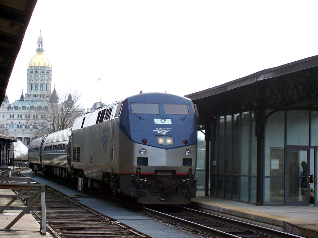 Amtrak Regional Shuttle in Hartford, CT, bound for Springfield.